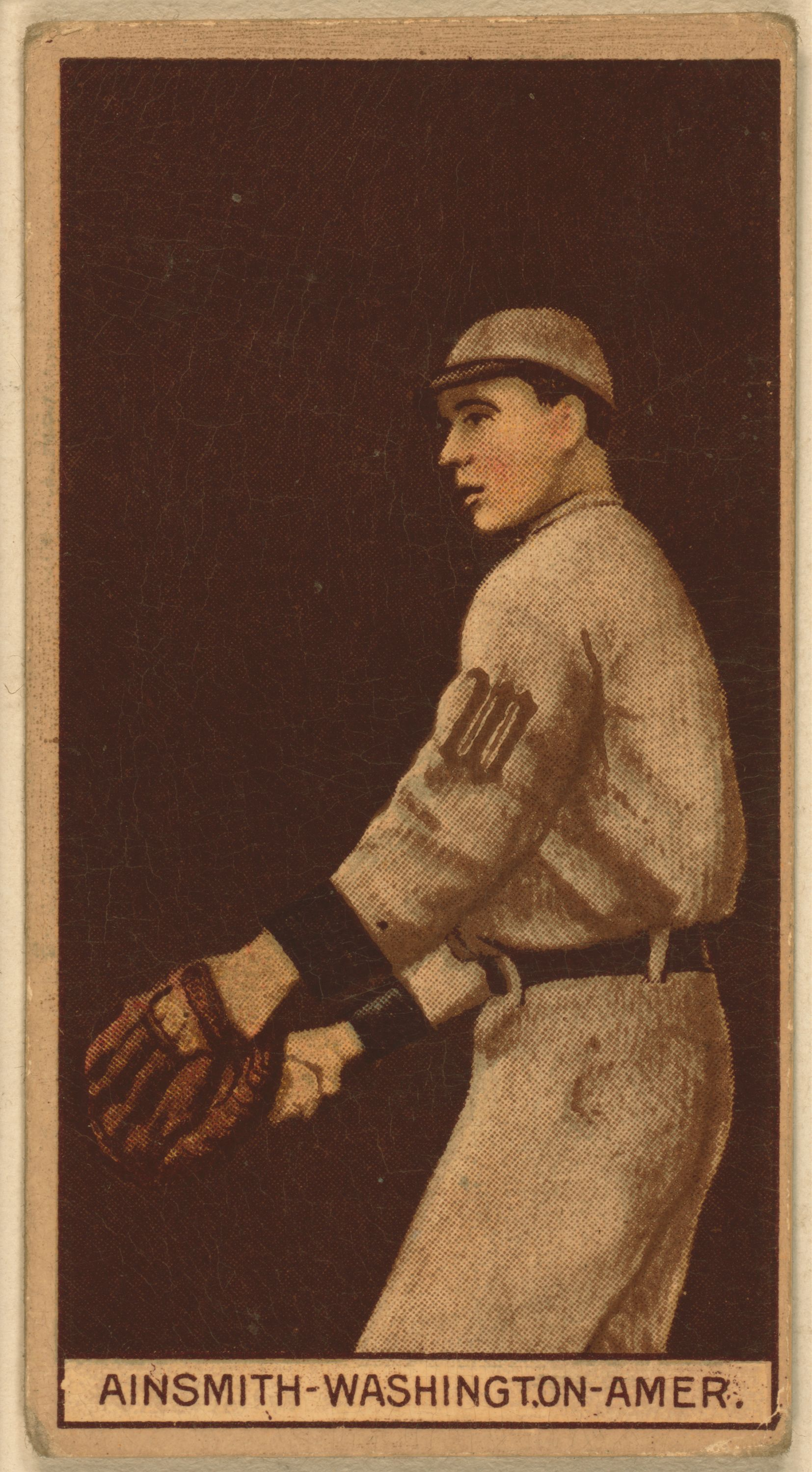 Edward Ainsmith